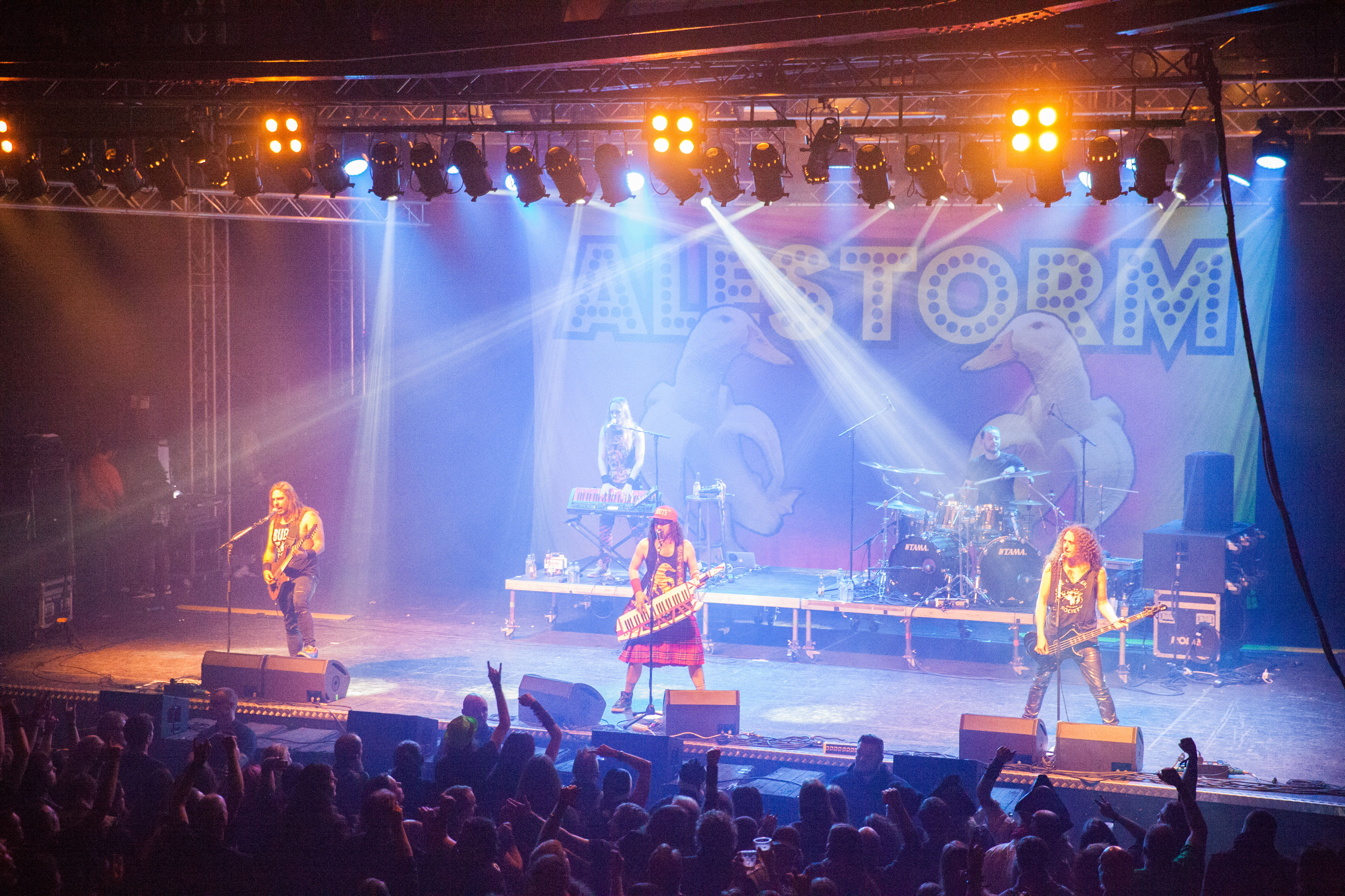 Alestorm at Ruhrpott Metal Meeting 2015